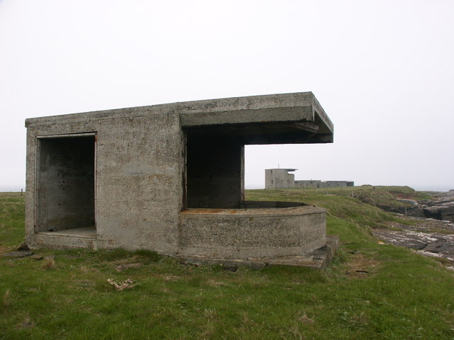 Searchlight House, near to Linksness, Orkney Islands, Great Britain. Not a gun emplacement, but housing for a searchlight.